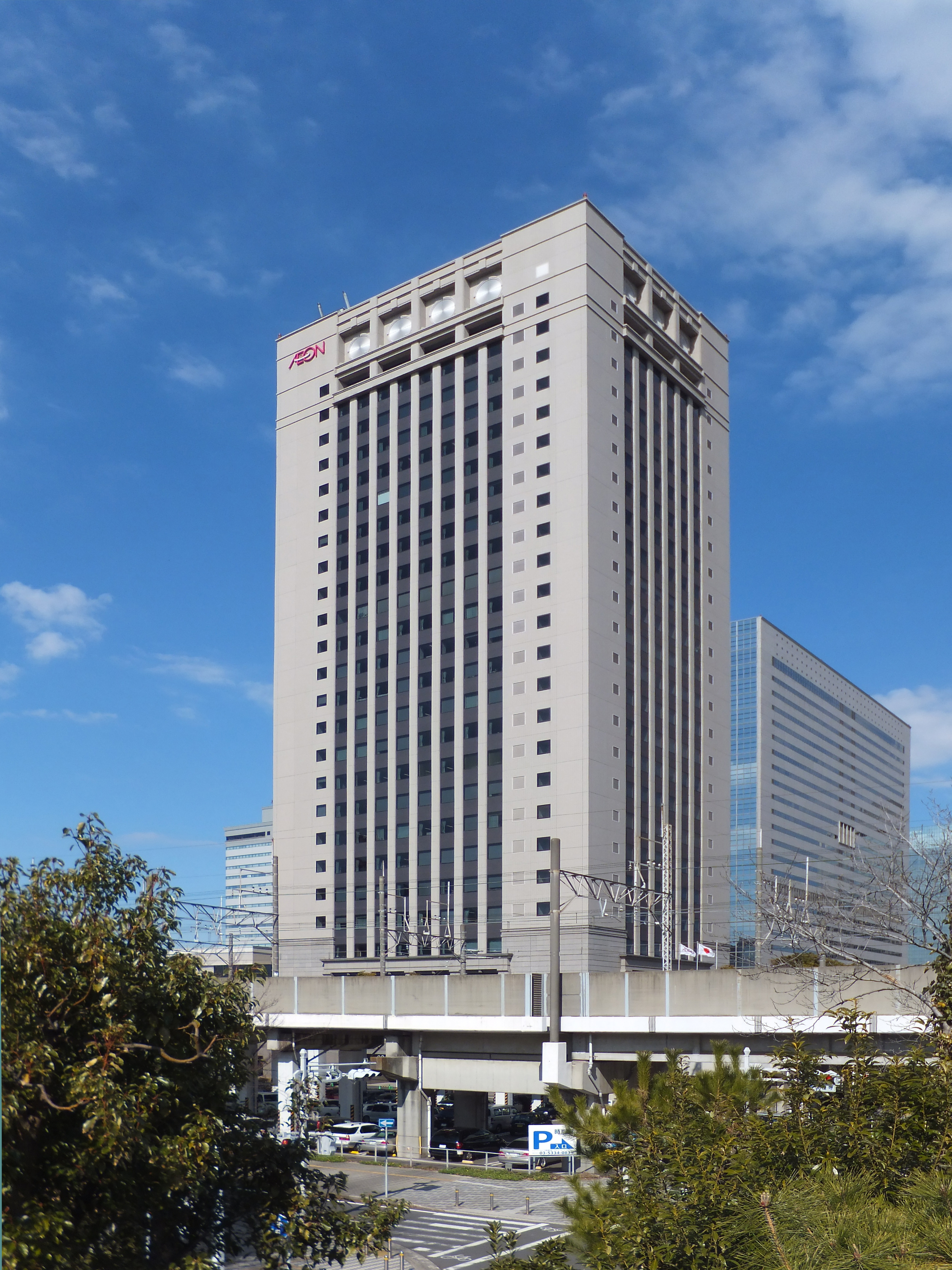 Headquarters of the AEON Group, in Chiba, Chiba, Japan